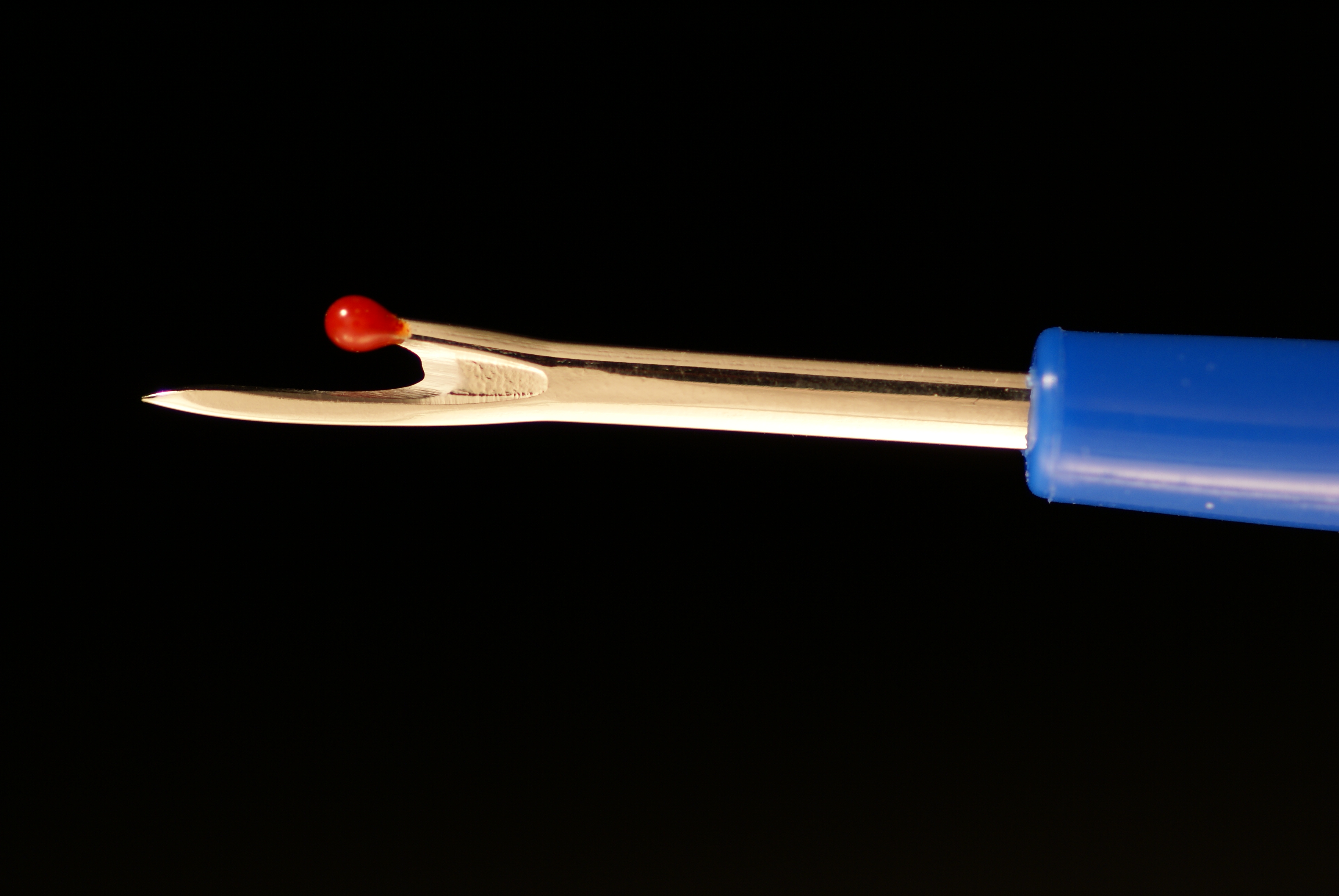 A closeup of the head of a seam ripper, a sewing tool for cutting or removing stitches. The blade edge, the longer of the two forked ends, is about 1cm long. The length of the exposed metal end (shaft plus head) is about 3cm, at which it joins with the plastic handle. The red spherical plastic ball at the end of the smaller of the forks is approximately 1.5mm in diameter. Taken with a Sony A100 camera using a Sony 2.8/100 Macro lens. Image has not been edited.